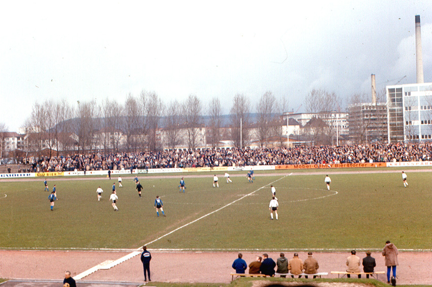 Regional League South (second division). VfR Heilbronn defeated Waldhof Mannheim, 1-0. Heilbronn was in white. The game was played in the Frankenstadion in Heilbronn. It was never filled to its capacity of 20,000 (mostly standing), even when the local club played against a first division team.